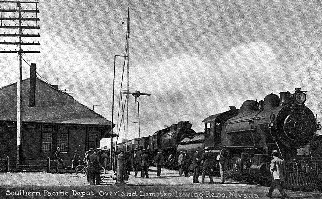 Postcard photo of the Overland Limited leaving Reno, Nevada in 1913.